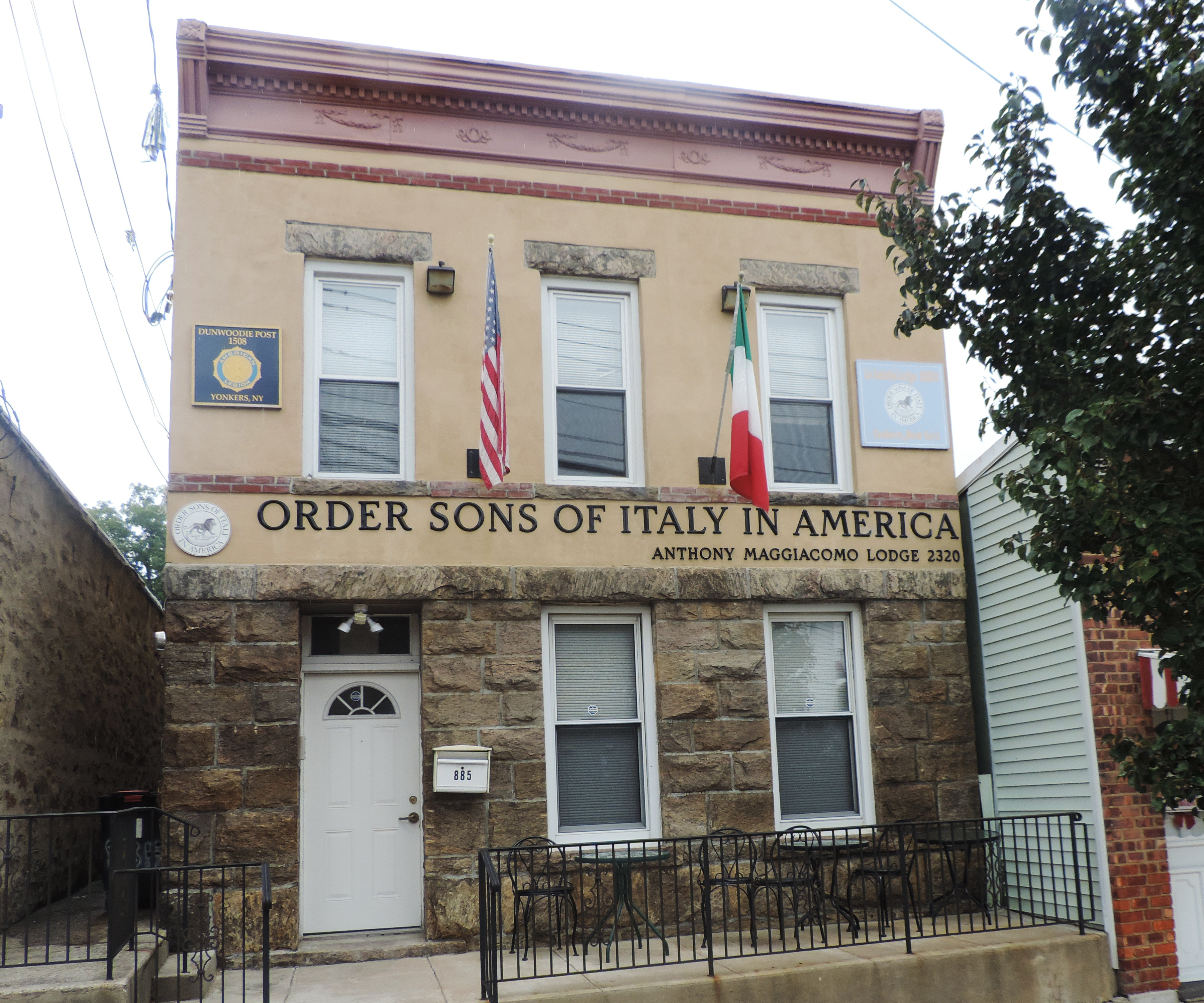 Looking northeast across Midland Avenue at Legion post on a cloudy midday.